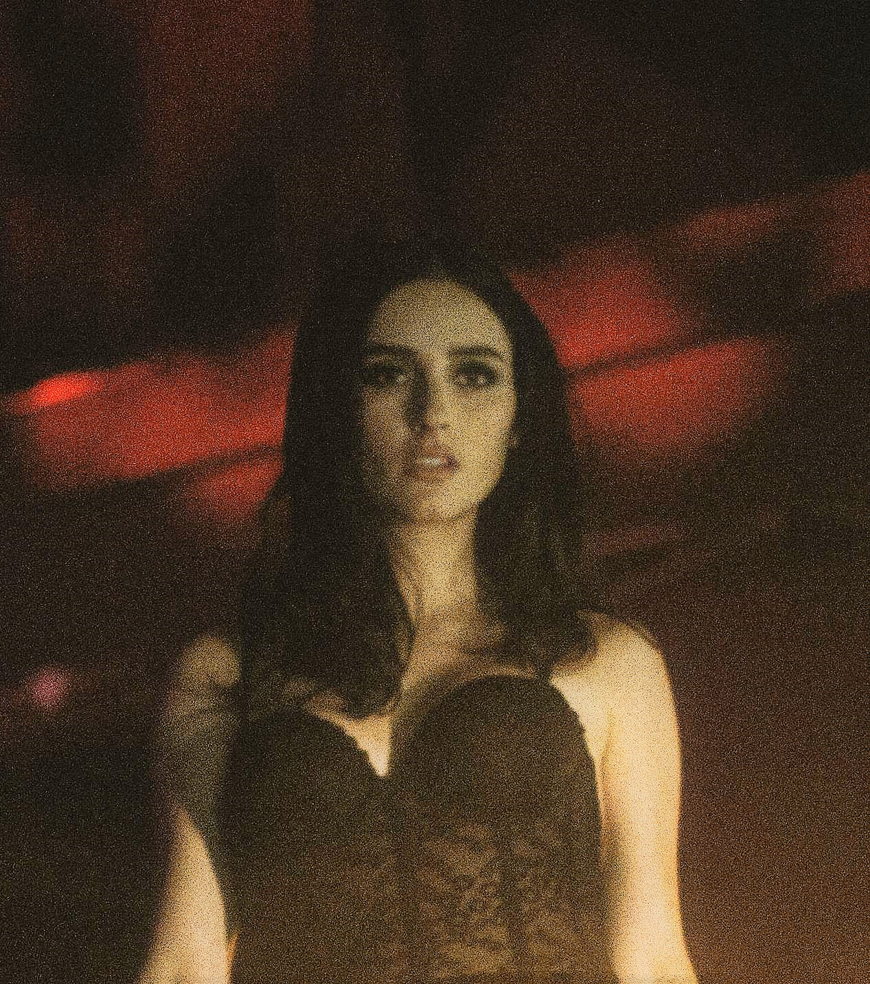 BANKS performing at Terminal 5 in NYC, October 1, 2014. Photo by Catie Laffoon Photography